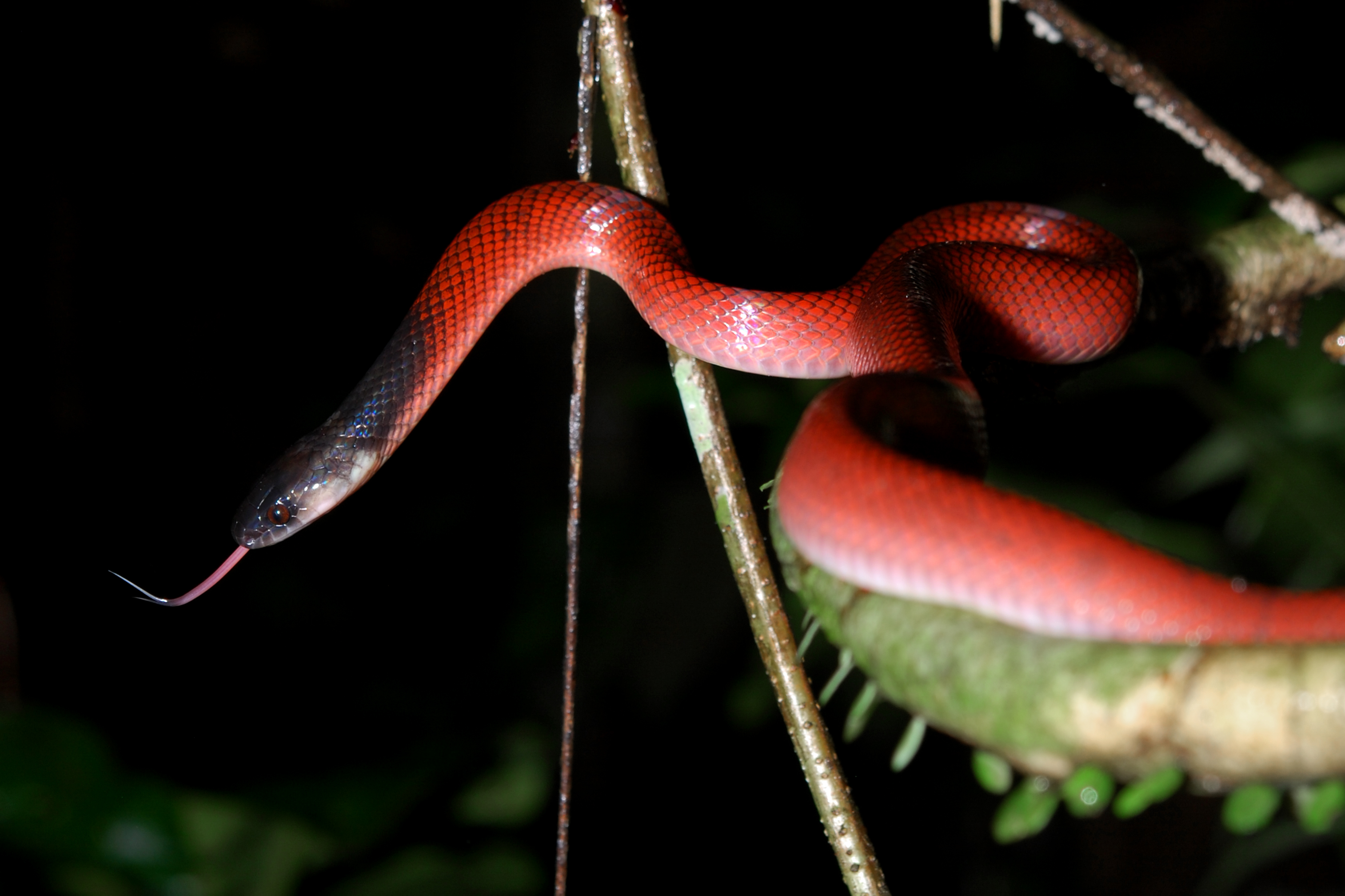 Tschudi's False Coral Snake (Oxyrhopus melanogenys), juvenile. In Yasuní National Park, Ecuador.